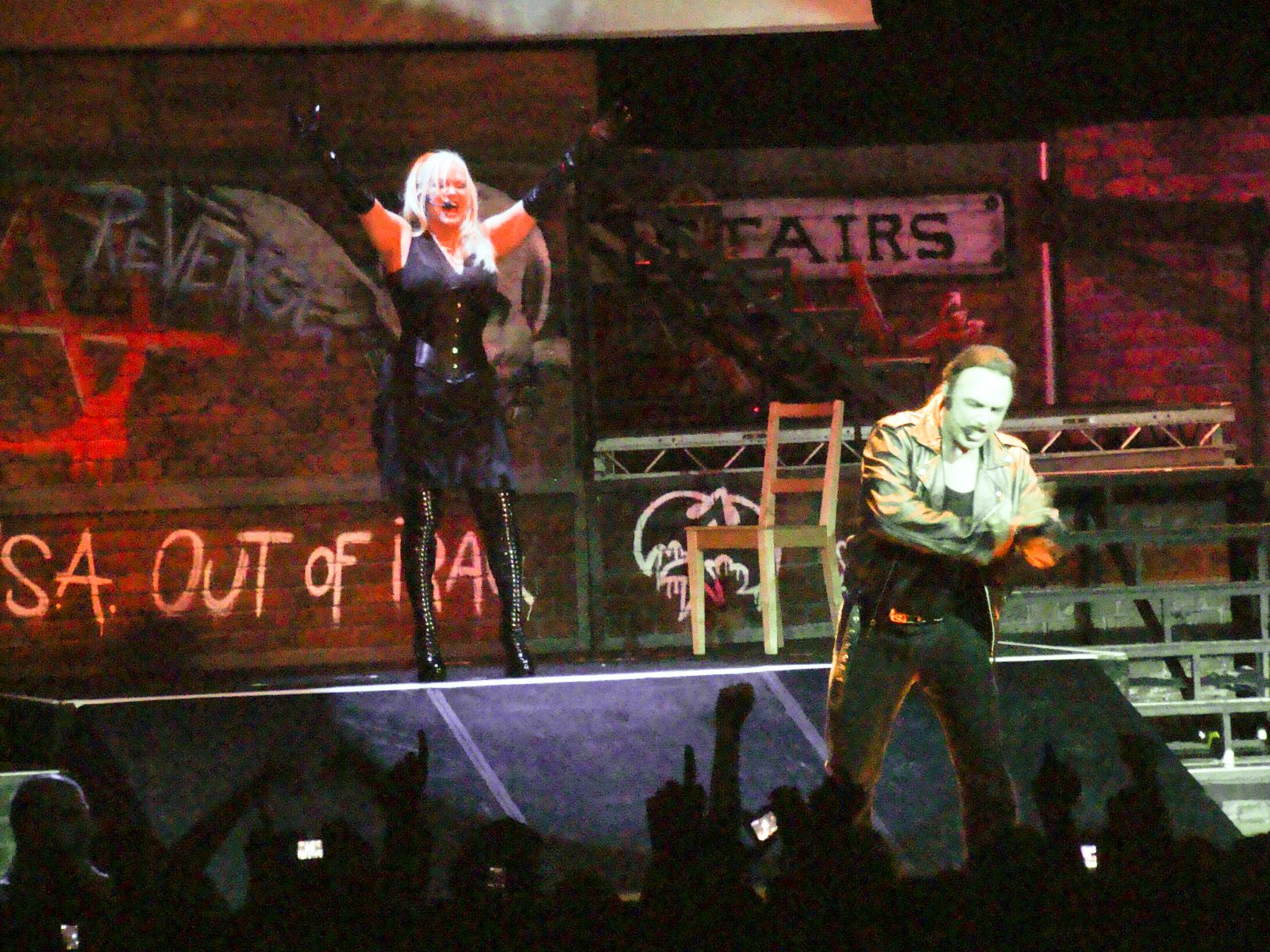 Operation Mindcrime 2 tour with Queensryche